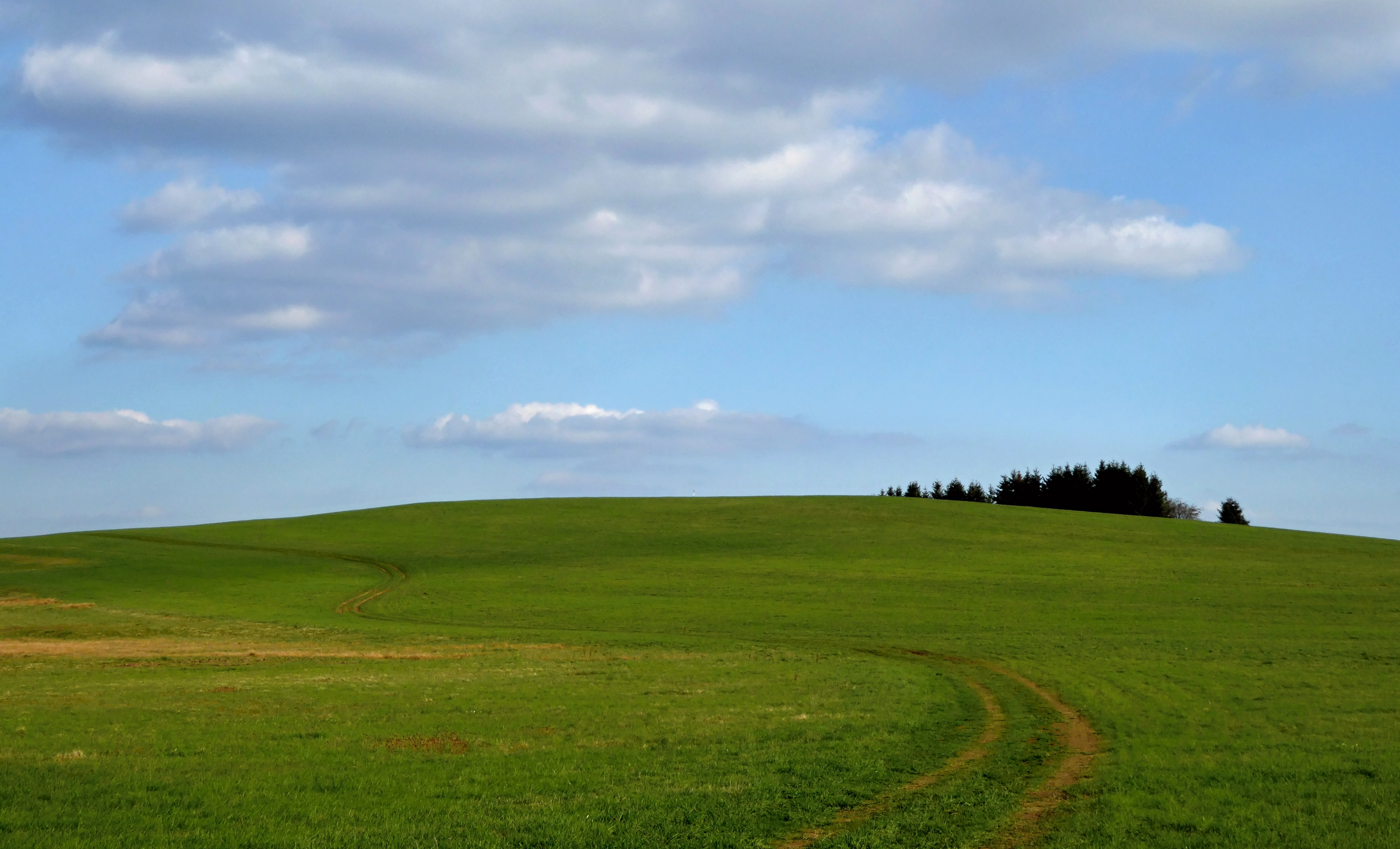 The hill with the Czech name "U oběšeného". Geographical name in czech written form "U oběšeného" is the standard name of the geographic object of hill type, its peak lies an altitude of 737.4 m and located on the cadastral area "Svratouch" in the Chrudim District, belong to the Pardubice Region in the Czech Republic. The highest peak of the Iron Mountains lies in the south-eastern part of the mountain range with name "Sečská" Highlands, in the geomorphological district "Kameničská" Highlands. Photo-location: Czechia, Pardubice Region, the village of "Svratouch". Source of information: State Administration of Land Surveying and Cadastre – website, see